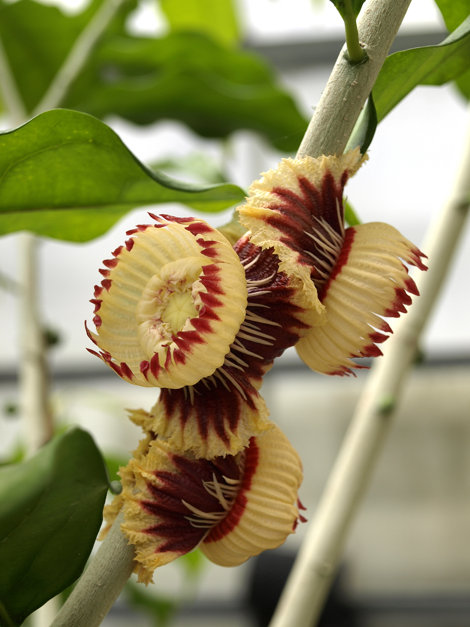 More flowers from this strange tree. The calyx is not visible; the corolla is the reflexed outer whorl. The other bits are modifications and appendages on the stamens. A large flat stigma is visible in the center. Biology Dept. greenhouse, Florida International University, Miami, Florida, USA. Biology Dept. greenhouse, Florida International University, Miami, Florida, USA.